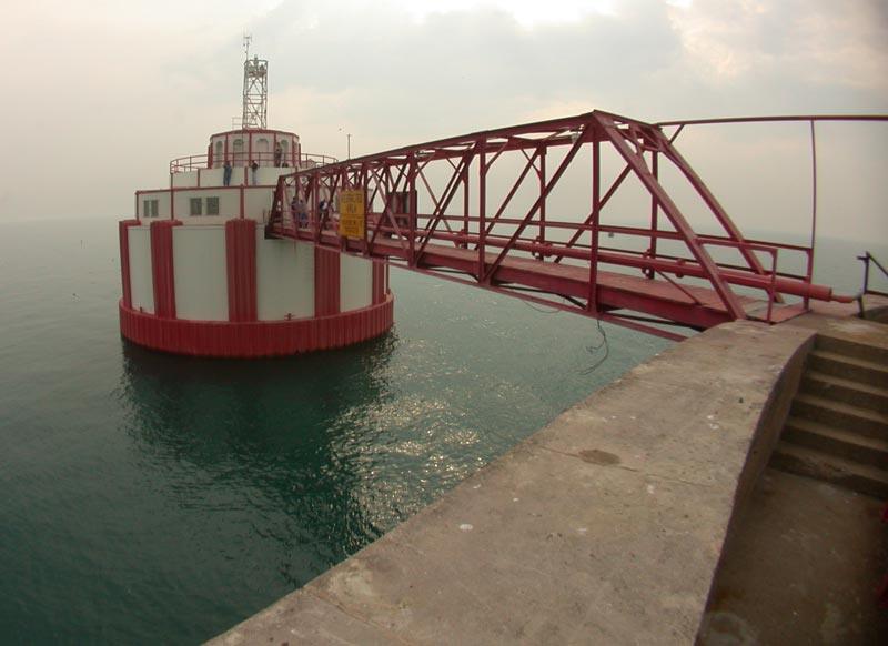 Chicago's dual cribs, the Carter H. Harrison. This is a view of the connecting bridge, shot from on top of the crib wall. Photo by Richard Drew.